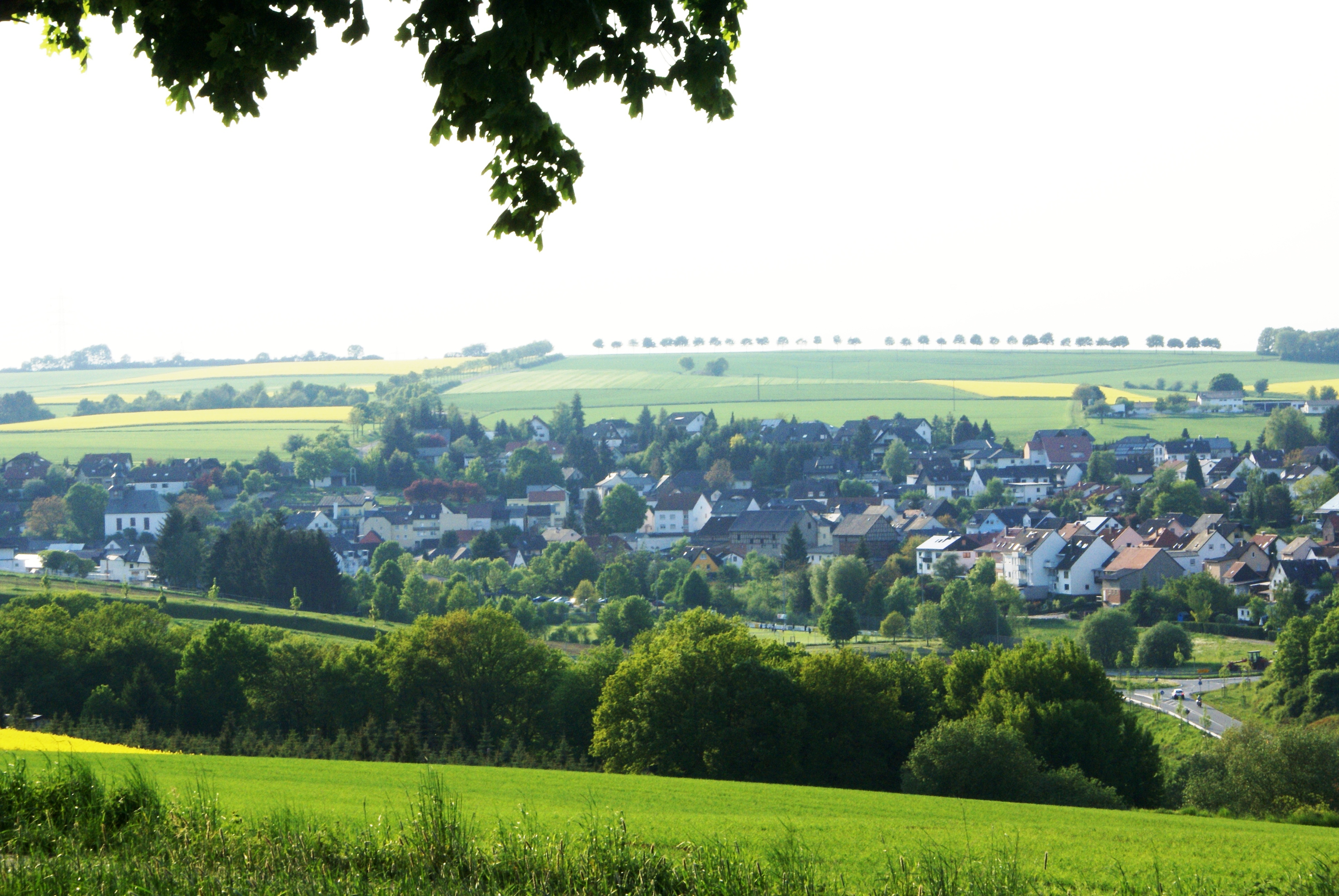 Beuerbach 2008